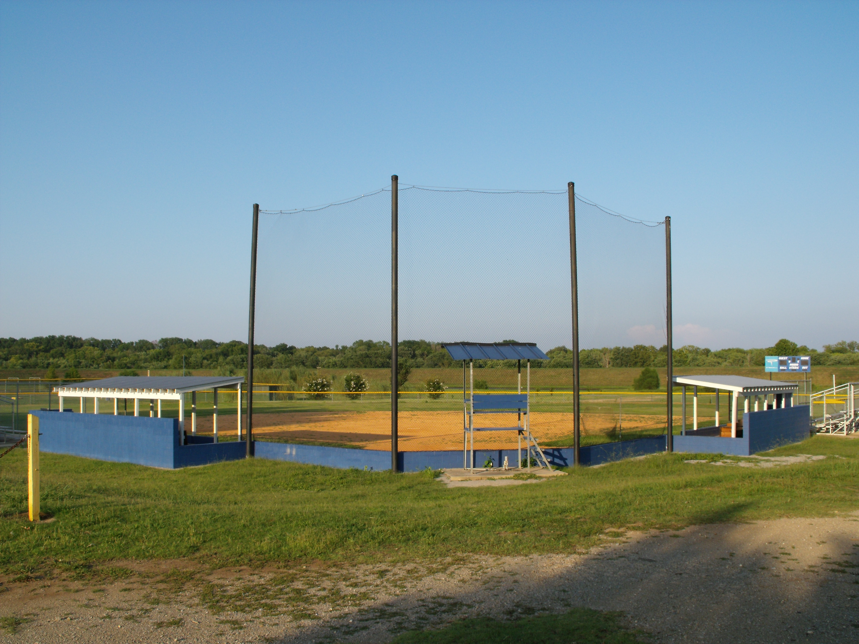 View of the softball field, Boyd-Buchanan School, Chattanooga, Tennessee.